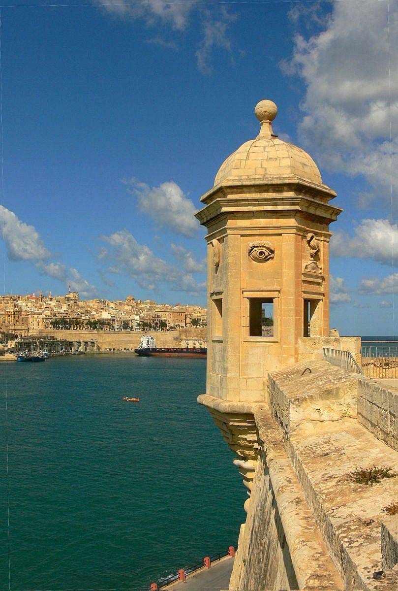 Il-Gardjola, the watchtower in Isla (Senglea), Malta